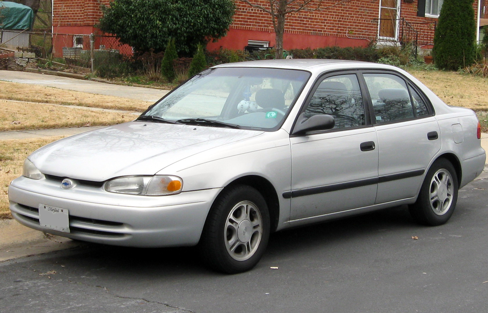 1998-2002 Chevrolet Prizm photographed in Rockville, Maryland, USA.